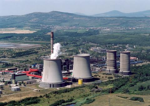 Visonta, Hungary, aerialphotography